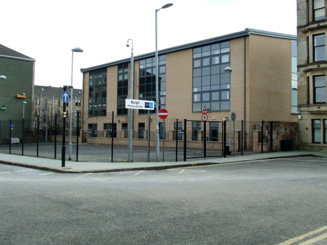 Burgh Primary School